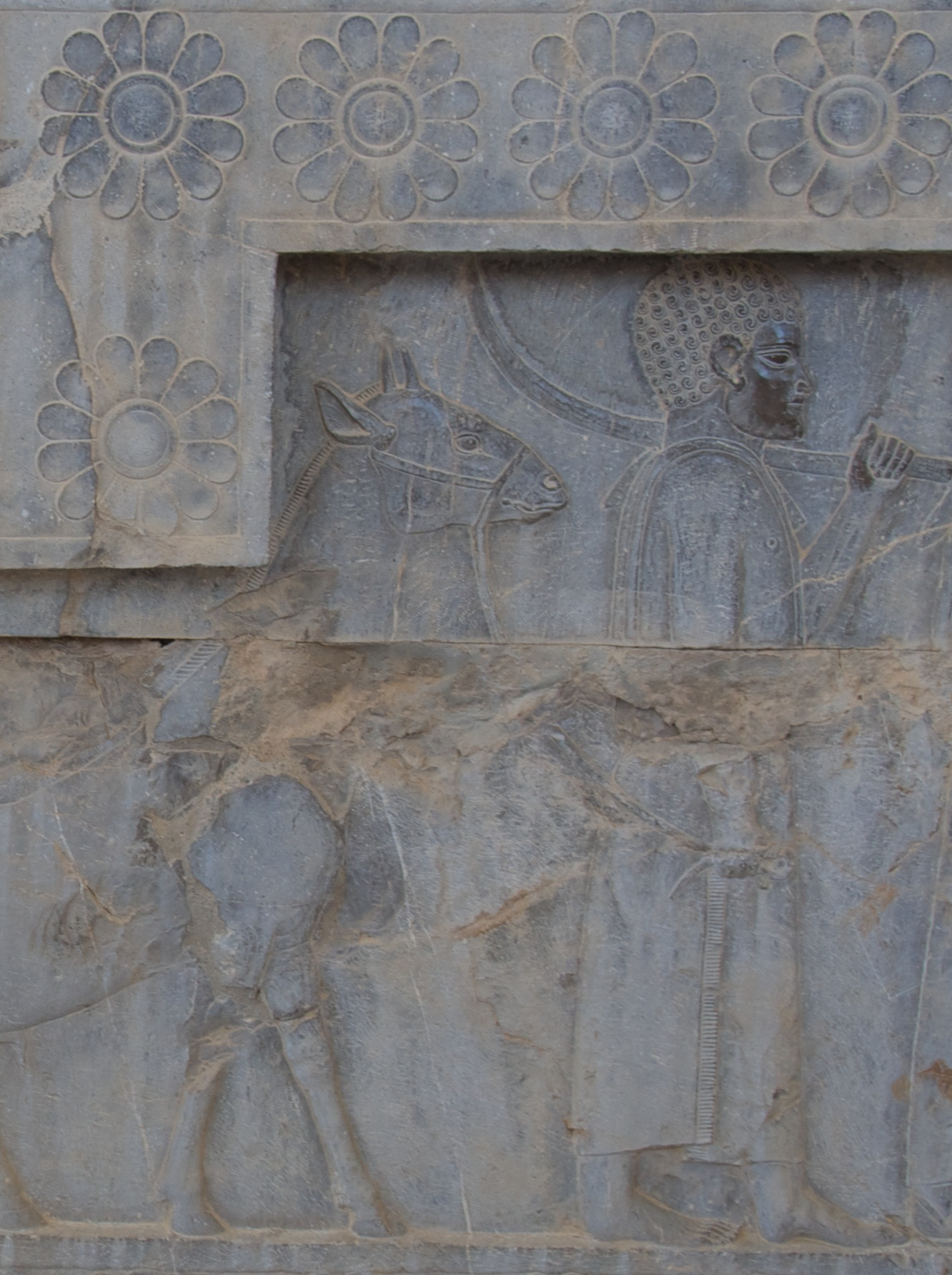 Nubians with an elephant's tusk. To the left, an okapi. A third man brings the king a small bowl with a lid. Source of info